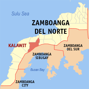 Map of the Zamboanga del Norte showing the location of Kalawit